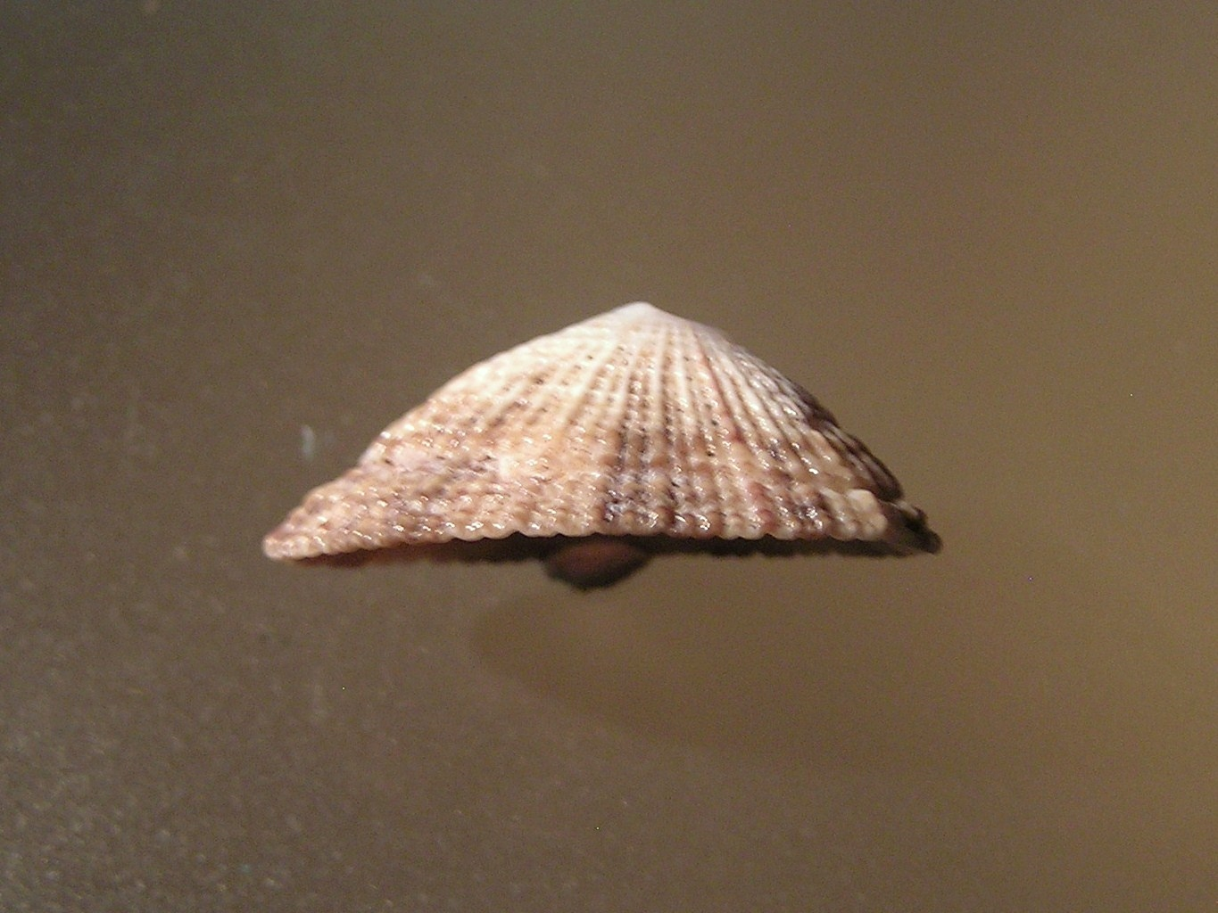 Diodora lineata Sowerby, 1835; a sea snail from the family Fissurellidae; Australia